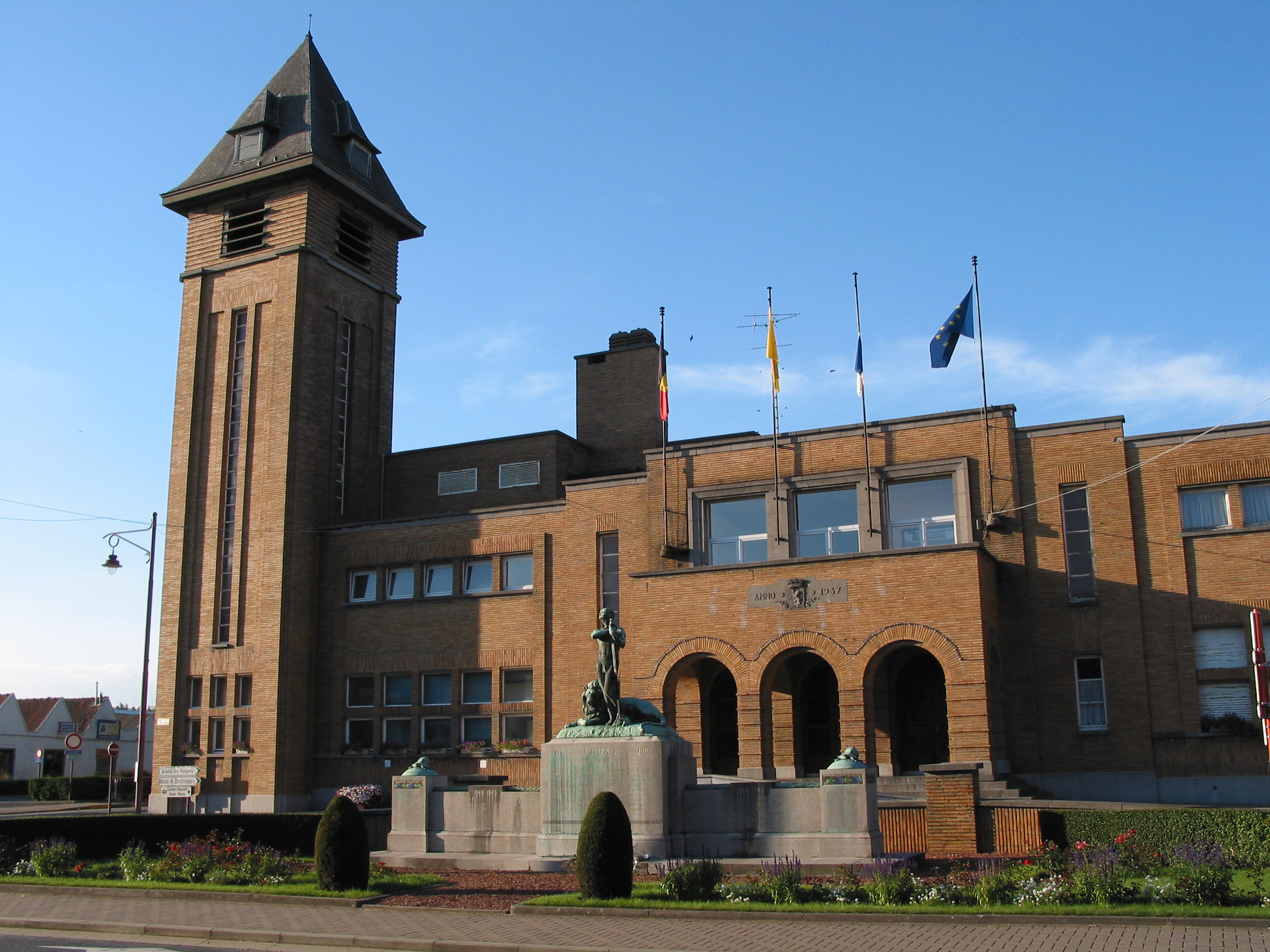 Leuze-en-Hainaut (Belgium), the town hall (1937 - architect: Georges Dubuisson)